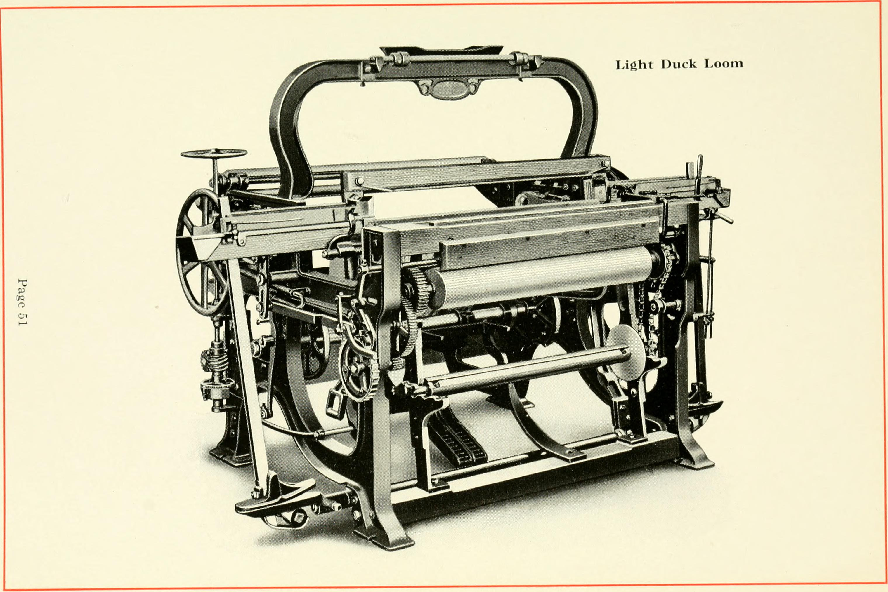 Title: Illustrated and descriptive catalog of Whitin cotton weaving machinery : and handbook of useful information for overseers and operatives Year: 1913 (1910s) Authors: Whitin Machine Works (Whitinsville, Mass.) Subjects: Cotton machinery Publisher: Whitinsville, MA : Whitin Machine Works Text Appearing Before Image: the drop box and pattern chain mechanisms, being arranged forsix boxes instead of four. Pulleys: 12 or 14 diameter by 2 face. Page 47 Duck Weaving DUCK LOOMS The manufacture of looms for weaving duck of all kinds, fromthe lightest sail duck to the heaviest belting duck, has been aspecialty with us for several years. Owing to the extremely heavynature of this class of goods the machinery for weaving them isof necessity much heavier in construction than is required for theordinary grades of cloth. We make four different types of looms for weaving duck: TheLight, the Intermediate, the Medium and the Heavy Duck Looms.These looms are capable of weaving a wide range of goods of varyingwidths and weights. The Heavy Pattern Loom, illustrated on page 16, is admirablyadapted for weaving heavy osnaburgs and denims, flat duck up to40, soft hose and belting duck up to 42, and Nos. 9 and 10 hardduck up to 42 wide. For heavier and wider duck use looms suchas described on the following pages. Page 50 Text Appearing After Image: LIGHT DUCK LOOM This loom is designed for weaving sail cloth, army duck andall light duck goods up to 32 wide. The general design of the frame and arch is similar to ourHeavy Pattern Loom. Particular attention is called to the Bartlettlet-off of very rugged design, and the high-cloth-roll motion, acombination which manufacturers will find is particularly adaptedfor light duck weaving. Changes in the number of picks beingwoven is readily accomplished by means of change ratchet gears. The drive may be either by tight and loose pulleys or by friction,as preferred. Pulleys: 14 diameter by 3 face. Page o~